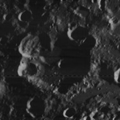 Oblique view of Avicenna crater, on the moon.